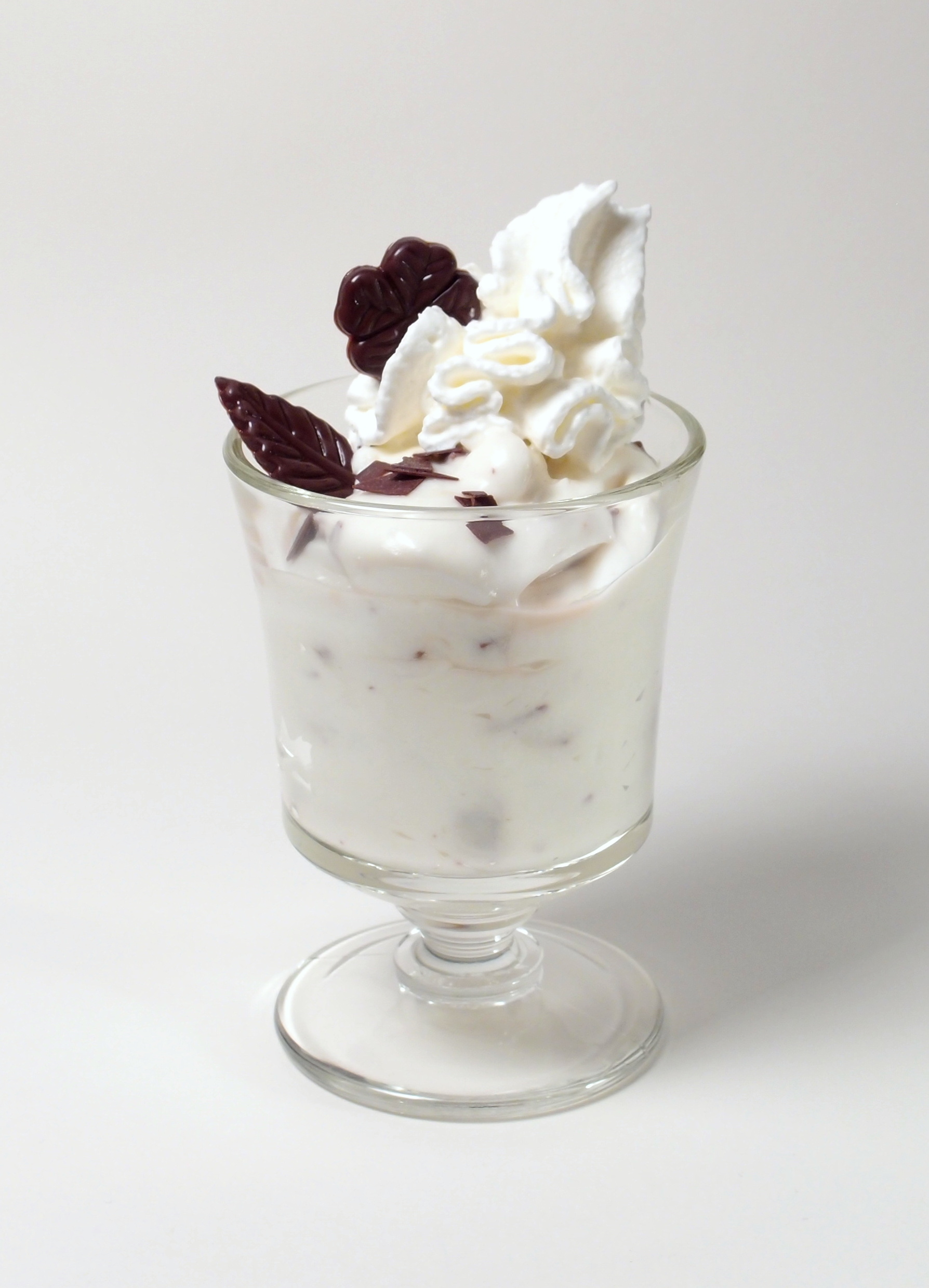 Herrencreme, a German dessert – literally, gentleman’s creme – made from vanilla pudding, whipped cream, and chopped dark chocolate.